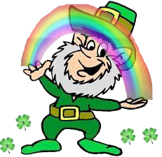 Leprechaun with rainbow